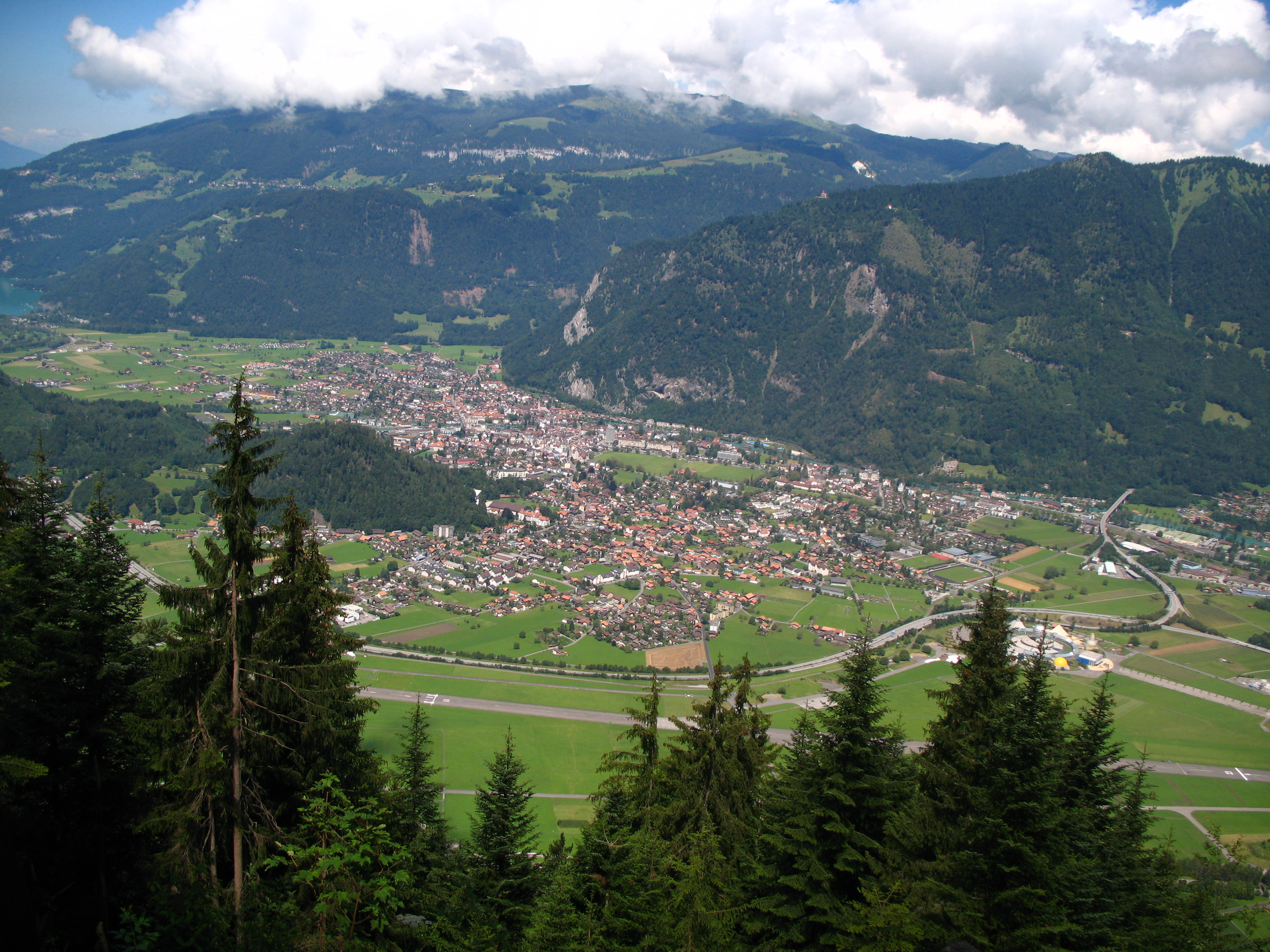 View of Interlaken and Matten from the Schynige Platte Railway, Switzerland